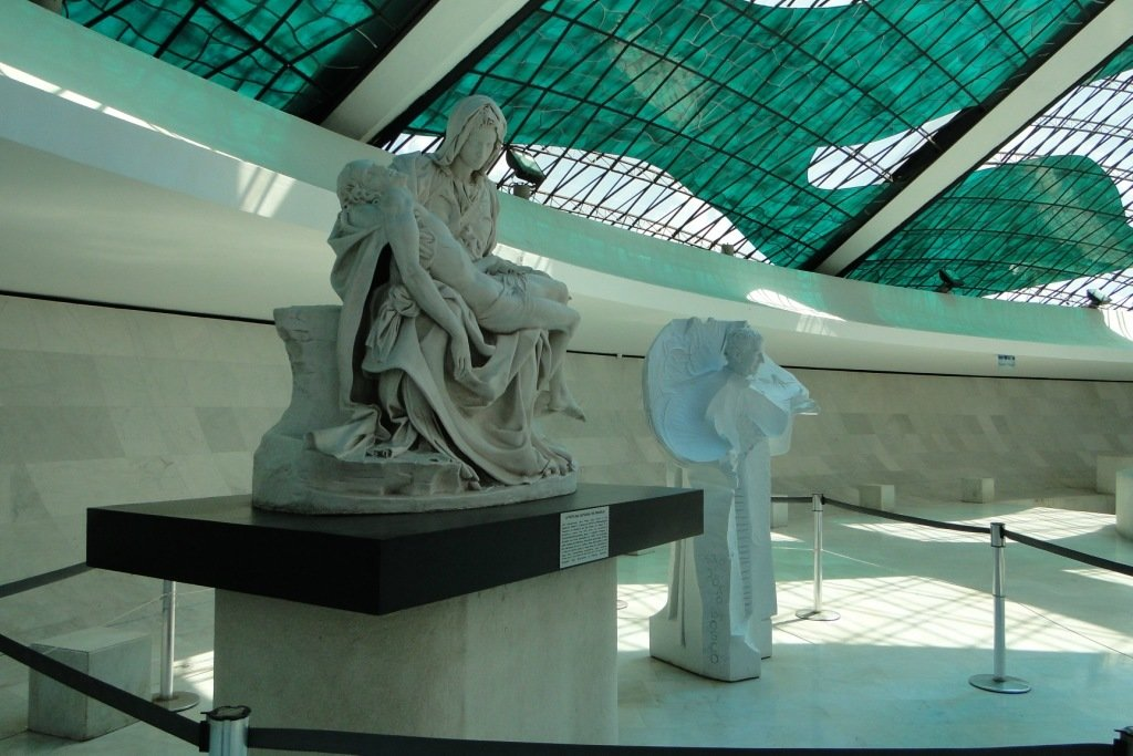 Cathedral of Brasília